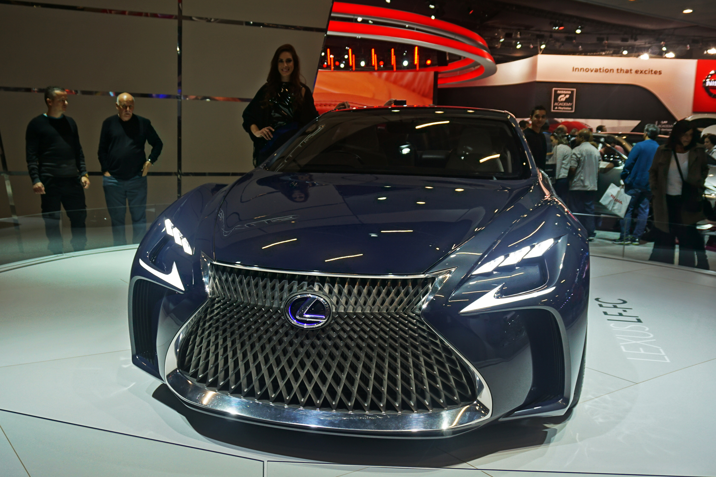 Lexus LF-FC hydrogen fuel cell concept exhibited at the Salão Internacional do Automóvel 2016 São Paulo, Brazil